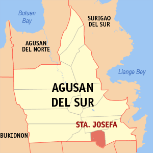 Map of the Agusan del Sur showing the location of Santa Josefa